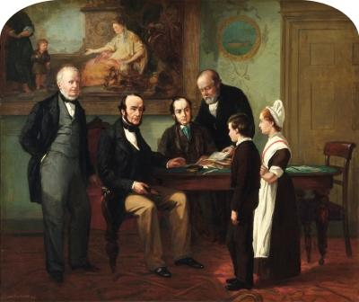 Taking Leave by EmmaBrownlow (1832-1905), depicting children about to leave the Foundling Hospital to take up apprenticeships. In the background can be seen Moses Brought Before Pharaoh's Daughter by William Hogarth, and a topographical view by Richard Wilson